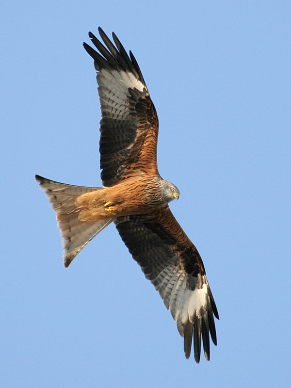 A Red Kite 5-5.6/100-400 IS USM 3 Exposure time: 1/500 s Sensivity: ISO 200 Size: 600x800 Location: Germany / Saxony / Chemnitz